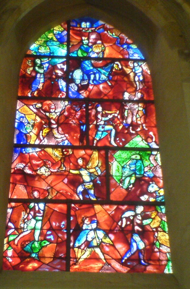 Stained Glass window by Marc Chagall in Chichester Cathedral